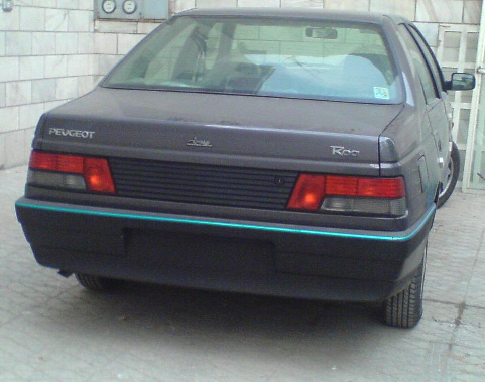 Roa back view.